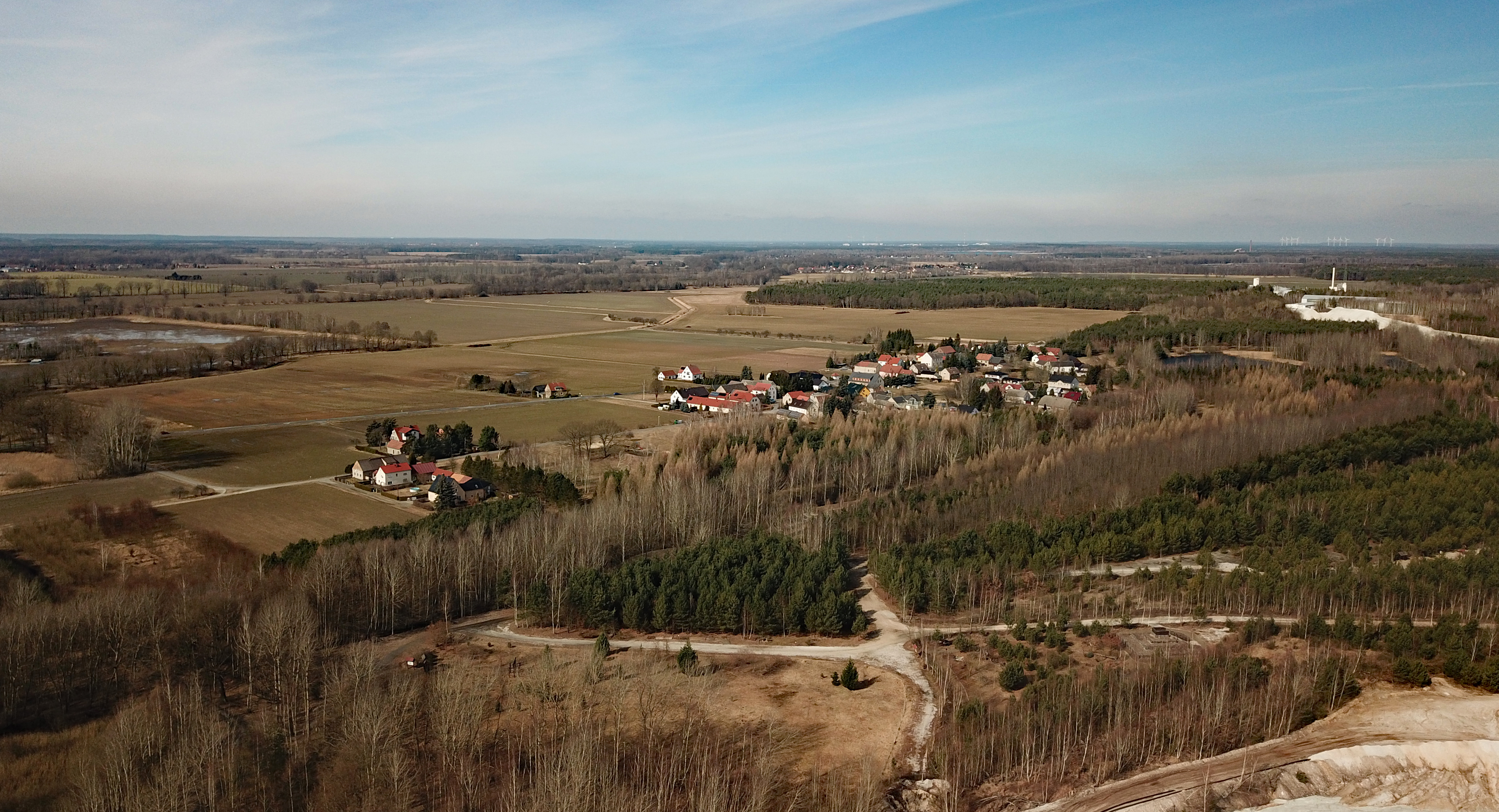 Caminau (Königswartha, Saxony, Germany) Hornjoserbsce: Powětrowy wobraz Kamjeneje pola Rakec z juhowuchoda